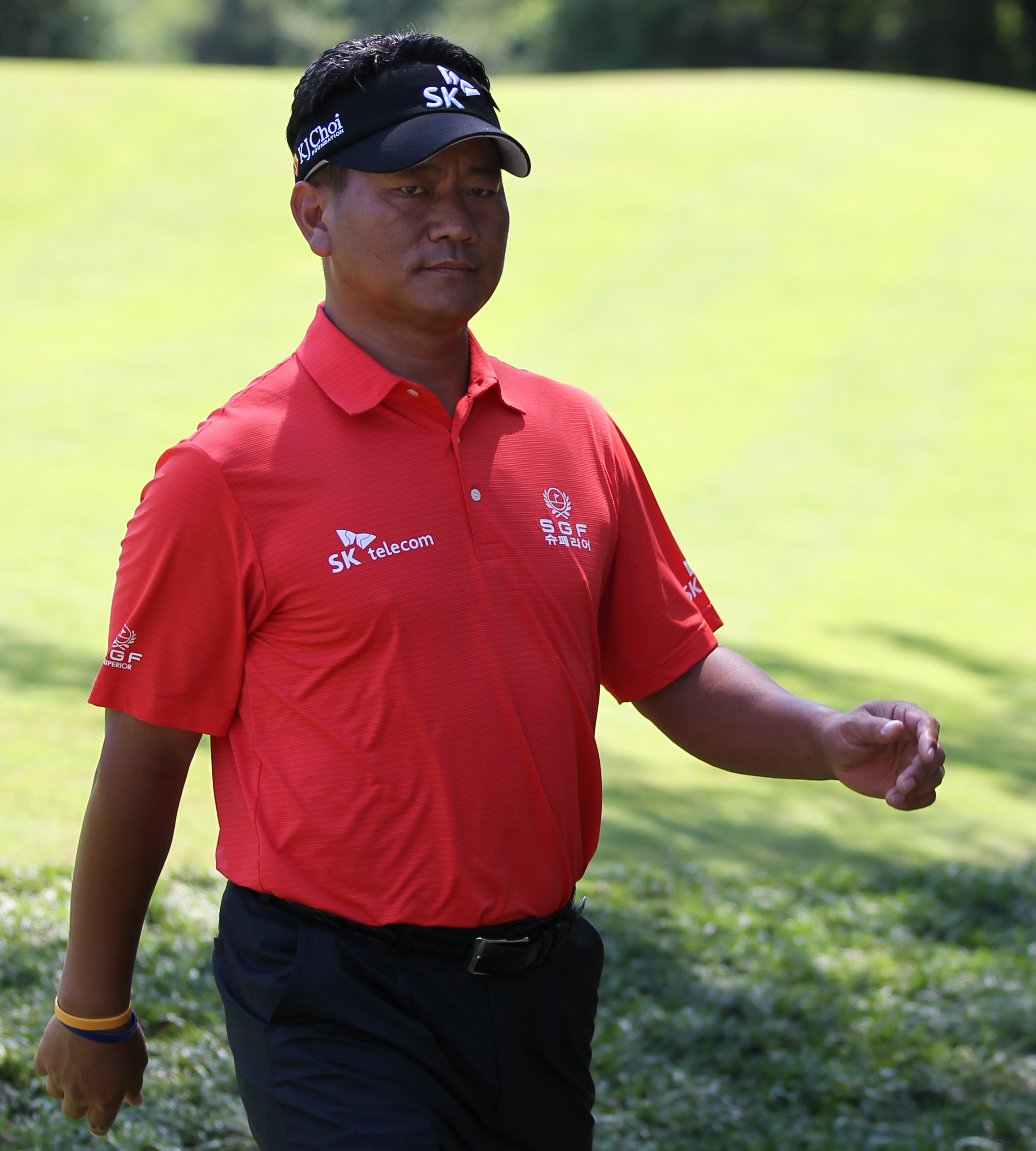 U.S. Open Golf Practice Round June 15, 2011